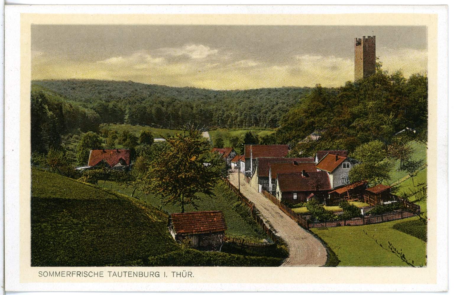 This postcard is from publisher Brück & Sohn in Meißen ( This postcard has a unique number 24651 and is available in a higher resolution at the publisher. This images was uploaded in a cooperation project between Wikipedians and the publisher.